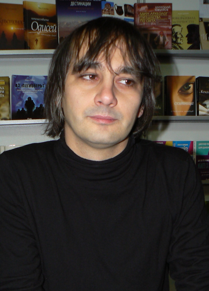 Bulgarian writer Radoslav Parushev